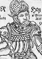 Eric the Red (Eiríkur rauði). Woodcut frontispiece from the 1688 Icelandic publication of Arngrímur Jónsson's Gronlandia (Greenland). Fiske Icelandic Collection.